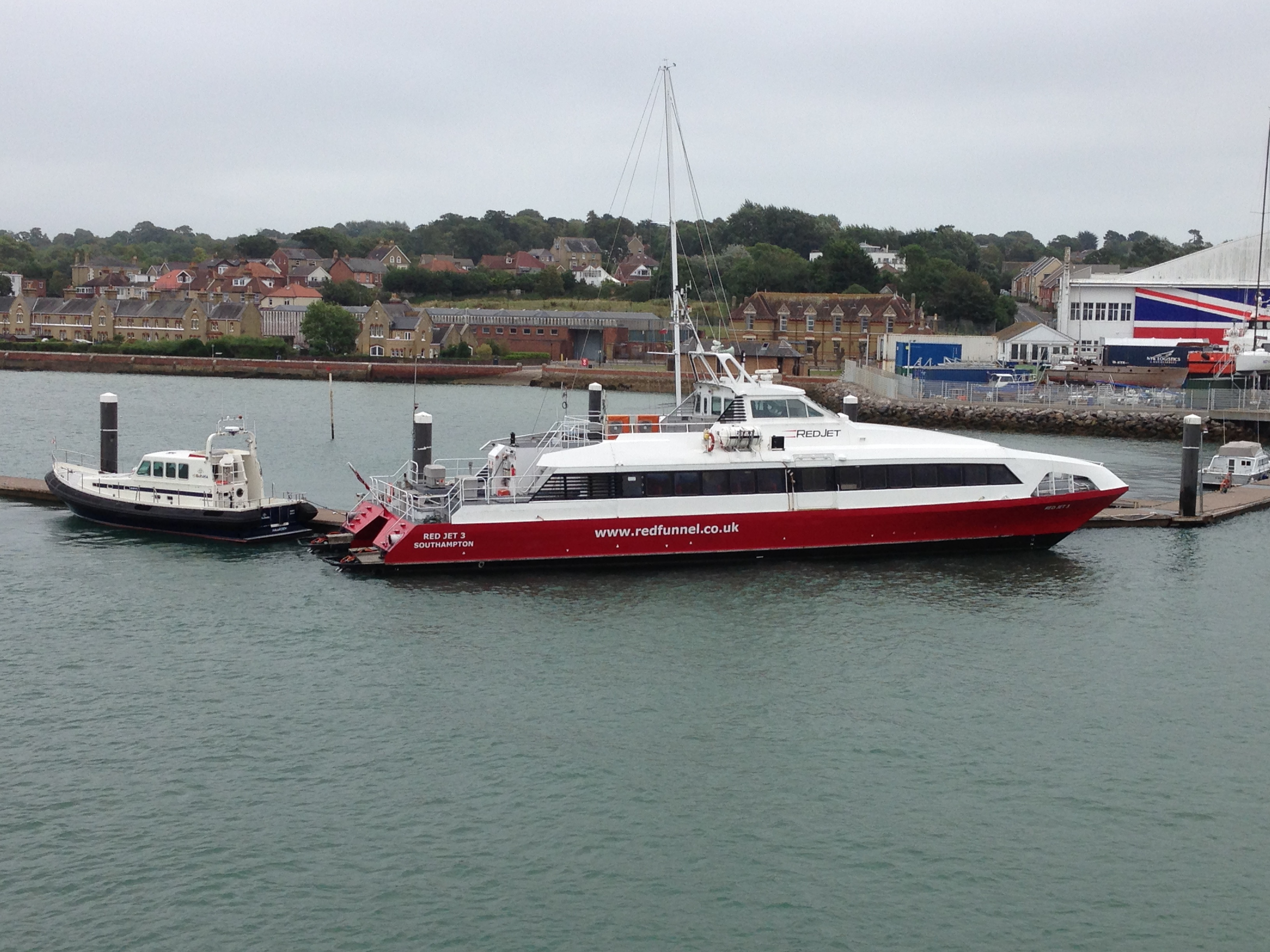 MV Red Jet 3 berthed at East Cowes, outside the former Saunders-Roe flying boat factory on 19 August 2018. It is thought that Red Jet 3 may be sold to another company in the near future as Red Funnel seeks to continue the manufacture and procurement of high speed catamarans to complement the newer Red Jet catamarans 6 and 7.